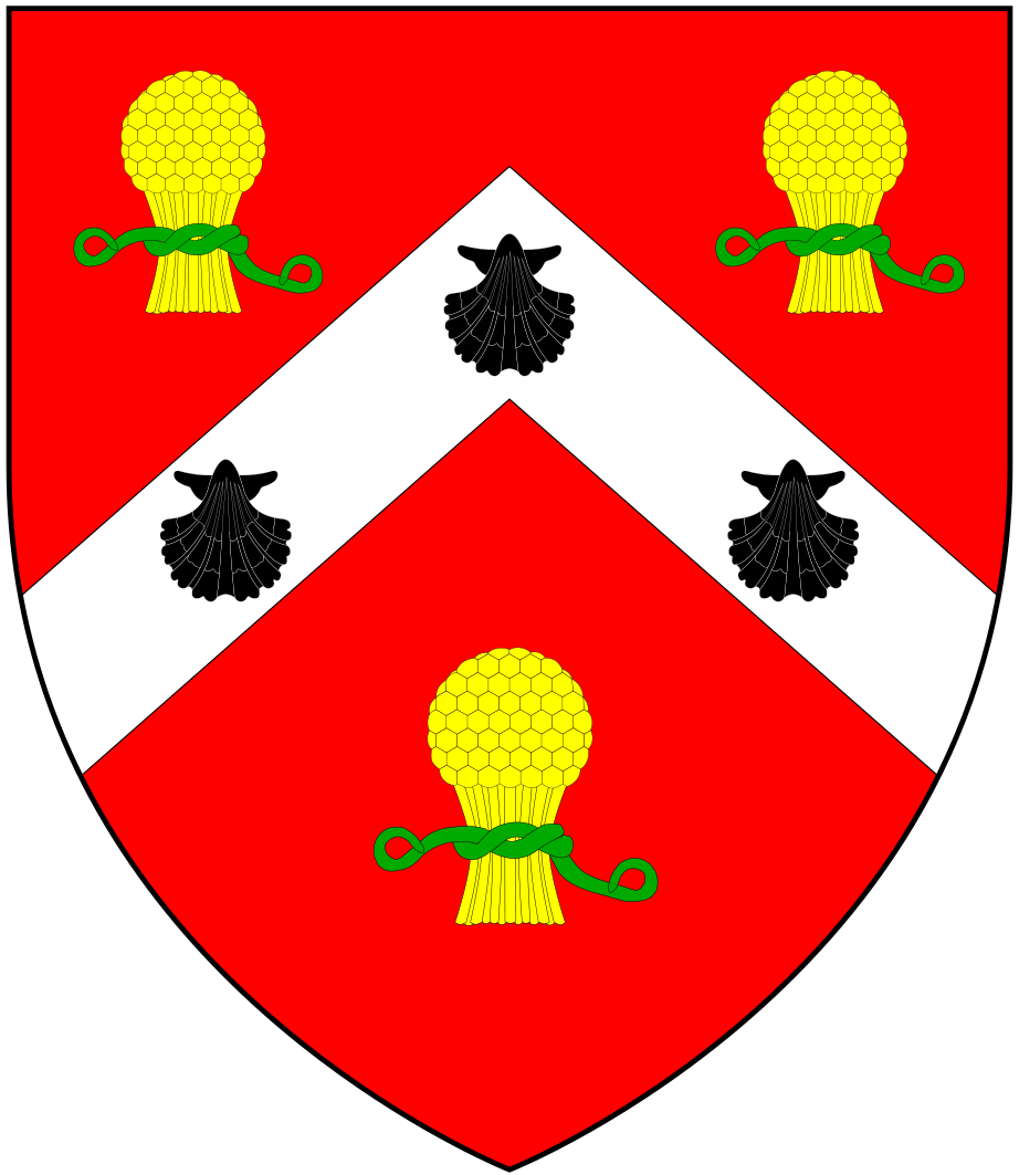 Arms of Eden (Baron Henley; Earl of Avon): Gules, on a chevron argent between three garbs or banded vert as many escallops sable